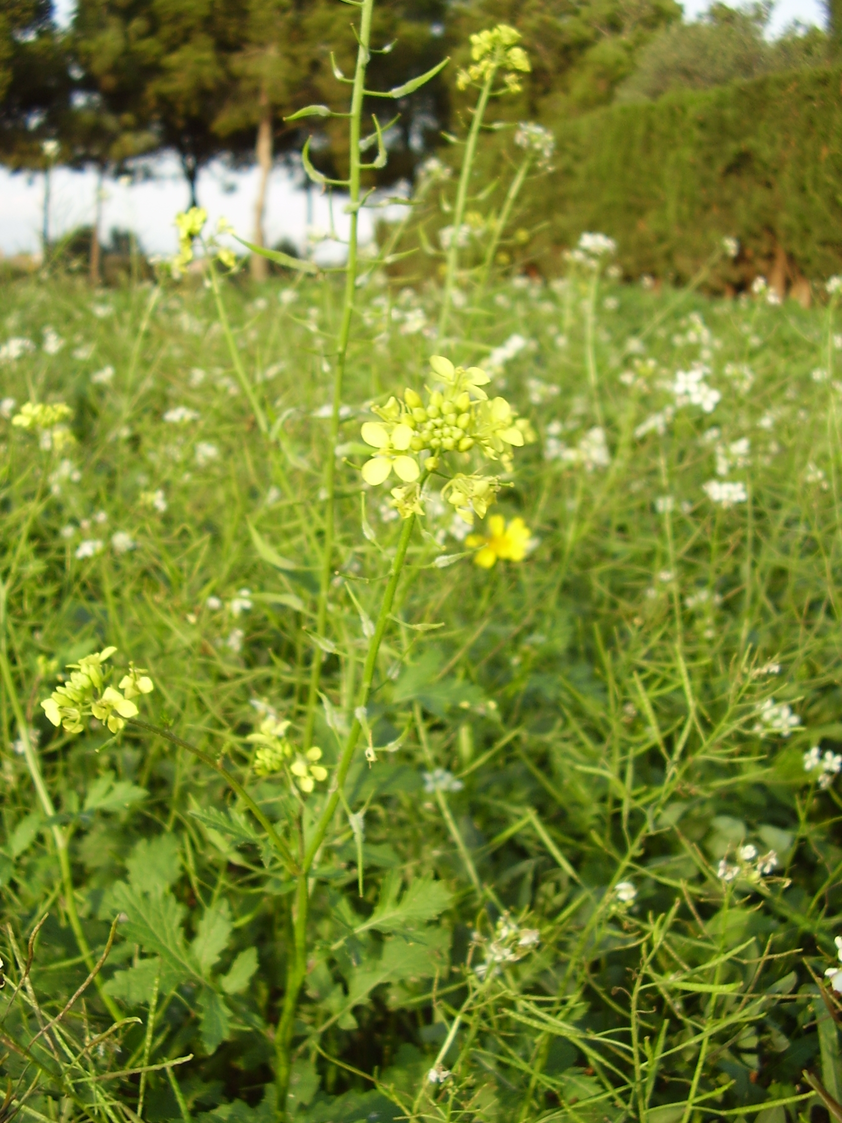 Sinapis alba subsp. mairei, Mallorca.